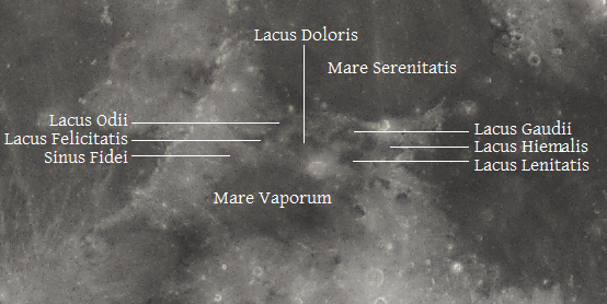 Small maria in Terra Nivium on the Moon. The crater close to the centre of the image is Manilius.